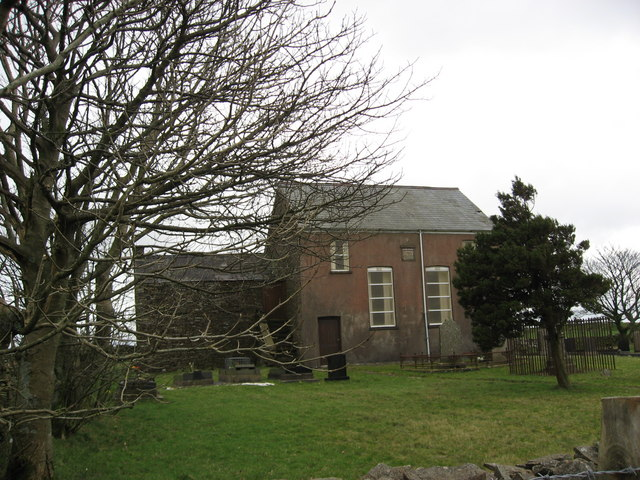 Gwrhyd Chapel Very bleak and isolated but very neat and well kept graveyard